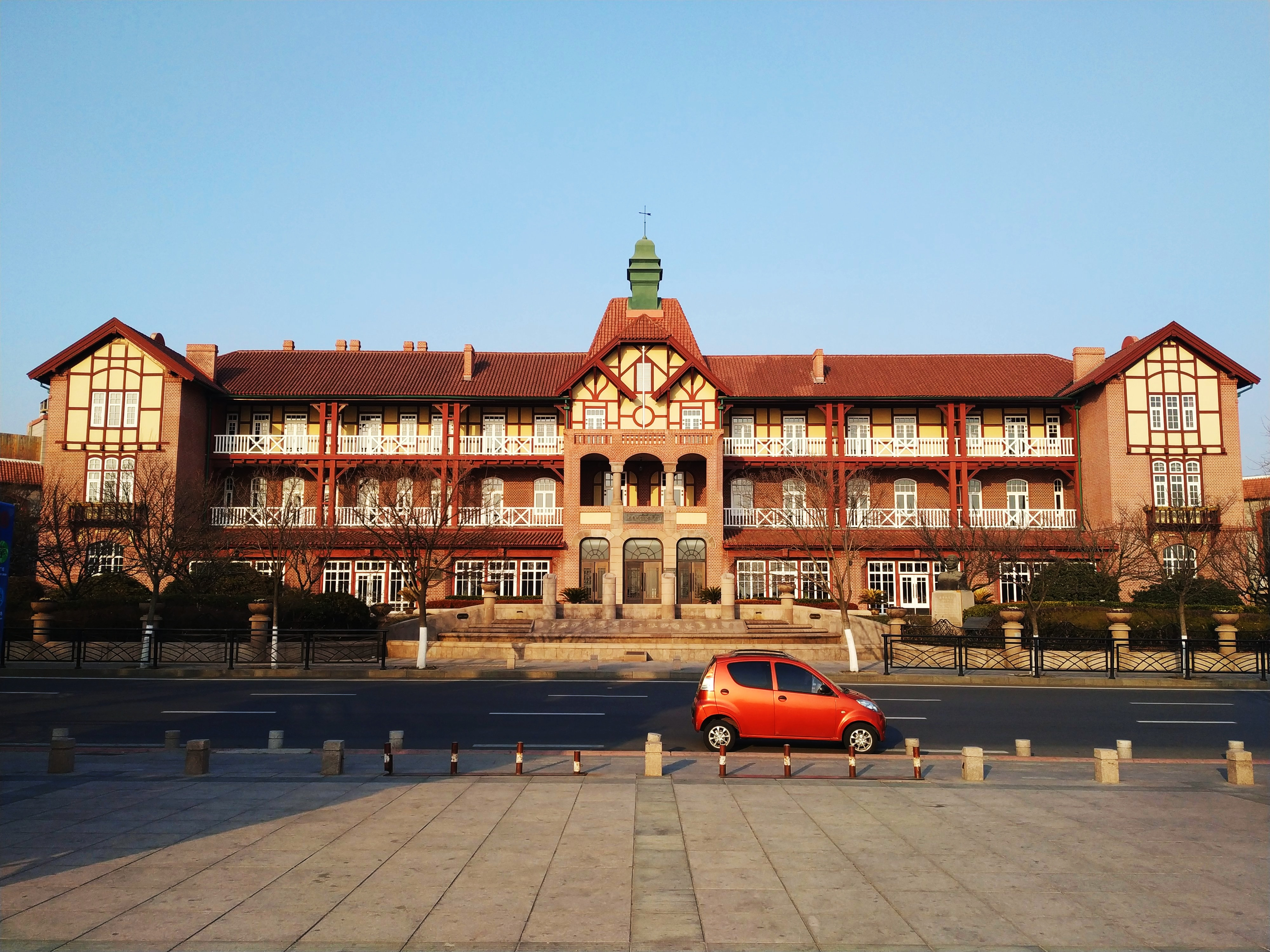 The Site of Seaside Hotel